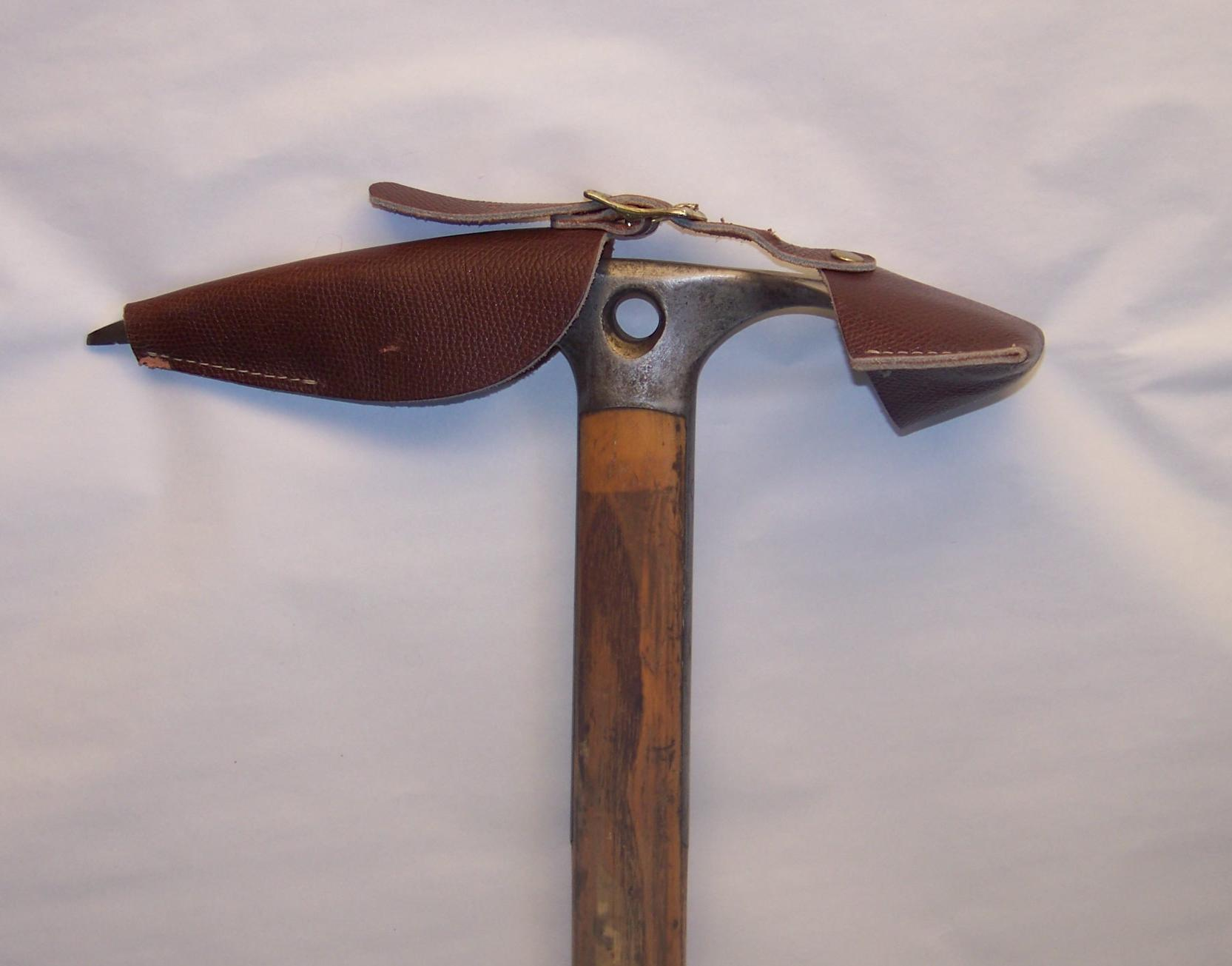 Photo of a leather pick and adze protector installed on an ice axe. This is a safety accessory intended for times when the ice axe is not in active use.